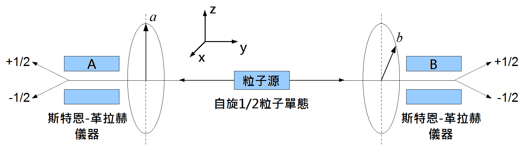 Bohm version of EPR experiment.